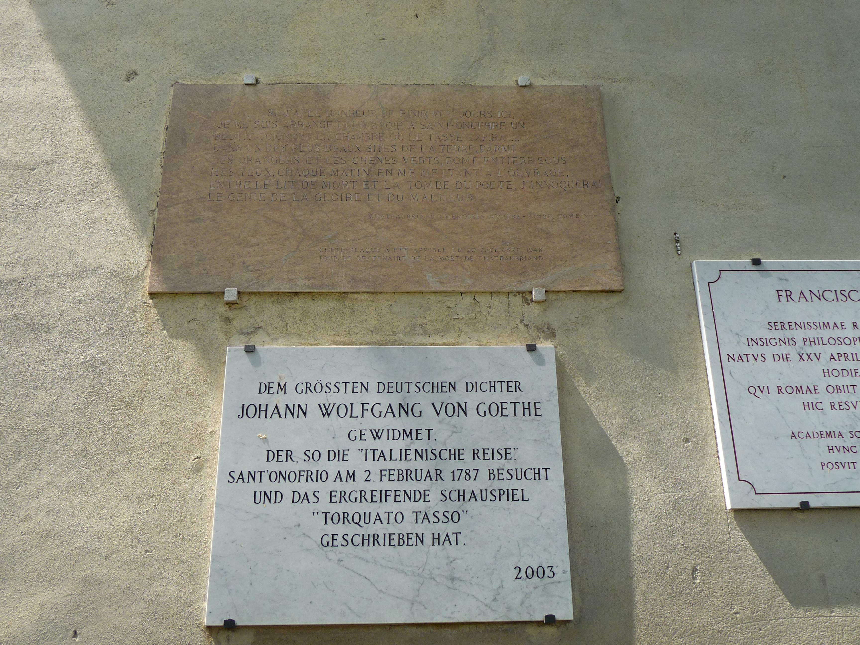 Sant' Onofrio al Gianicolo in Rome, plaques